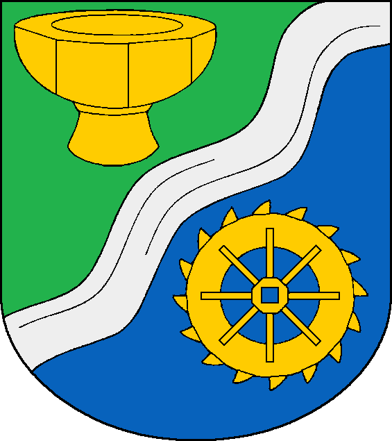 Coat of arms of the municipality Schmilau in Schleswig-Holstein, Germany.